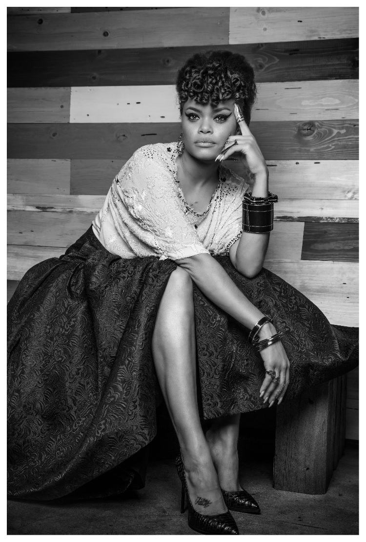 Andra Day photo